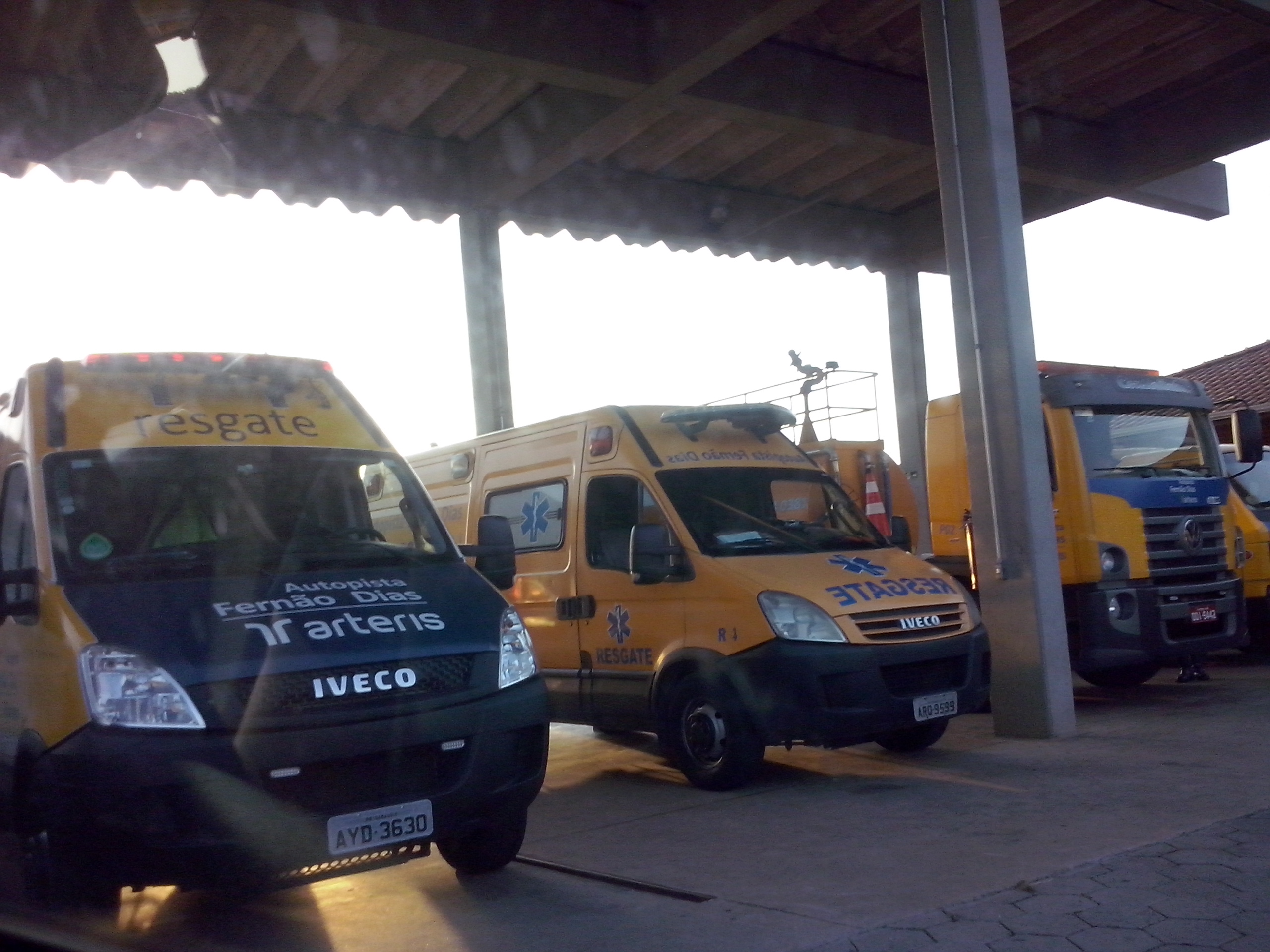 Support vehicles of the Fernão Dias highway in Três Corações, Minas Gerais, Brazil.